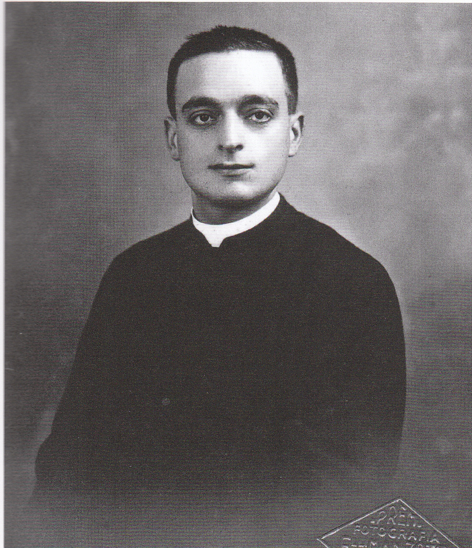 Don Benedetto Richeldi